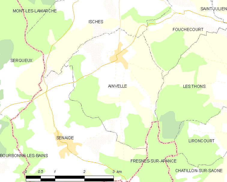 Map of French municipality Ainvelle